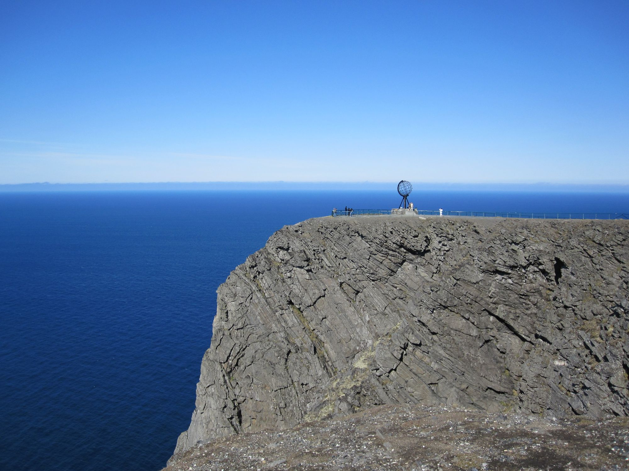 North Cape in very rare bright sunshine